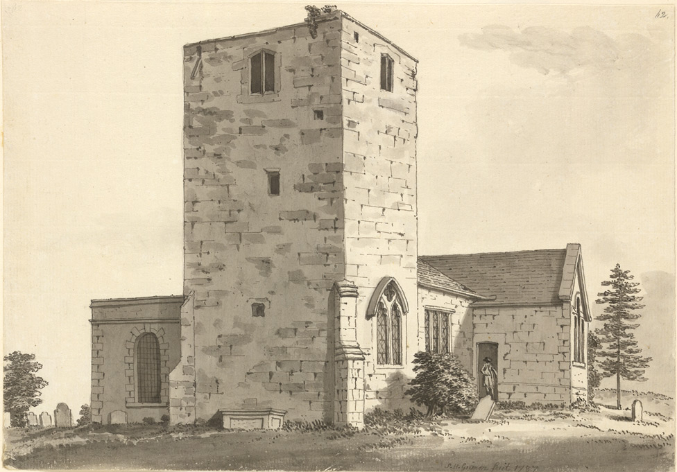 St Helen's parish church, Pinxton, Derbyshire, seen from the southwest